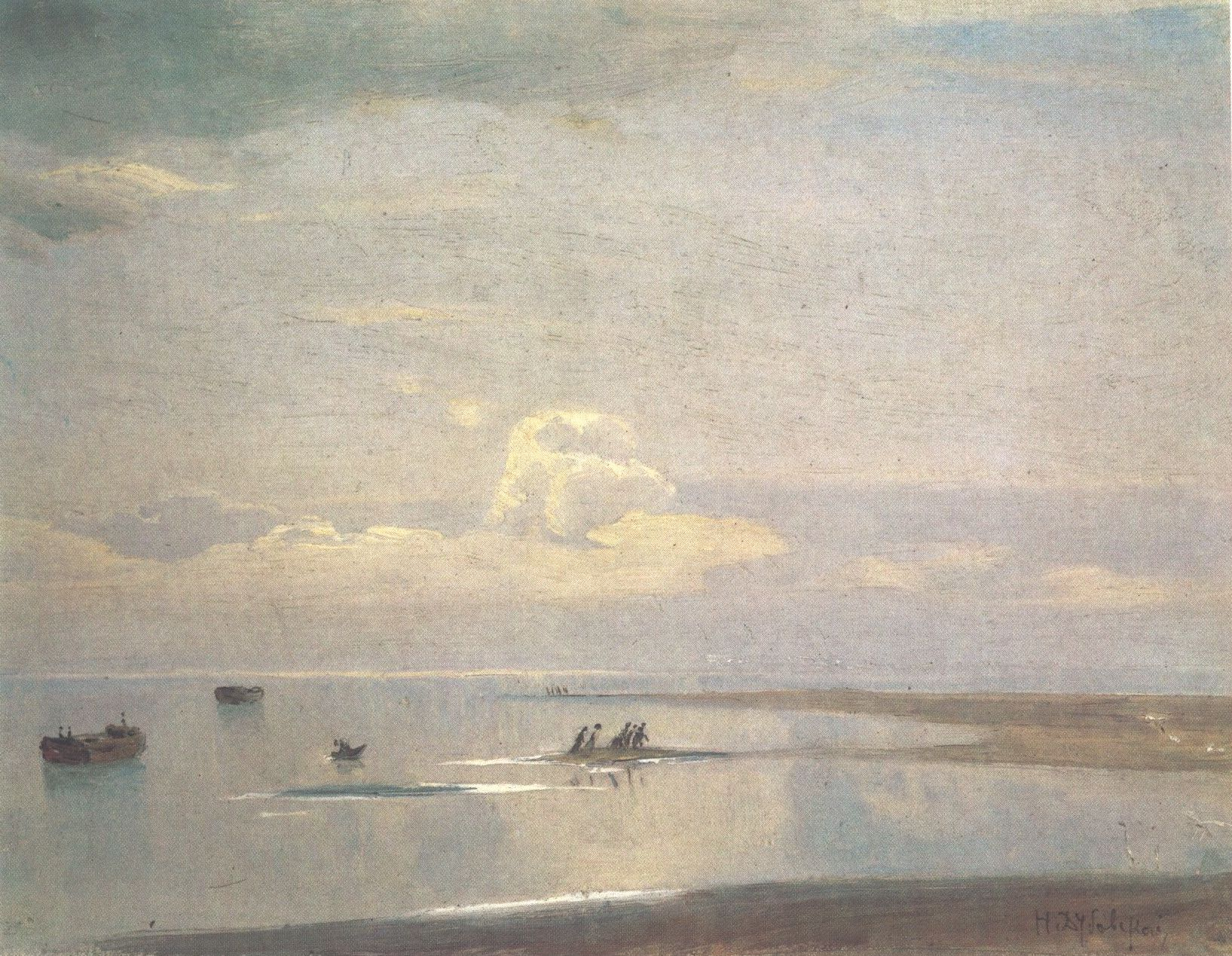 On the Volga (study by Nikolai Dubovskoy, ca. 1892)